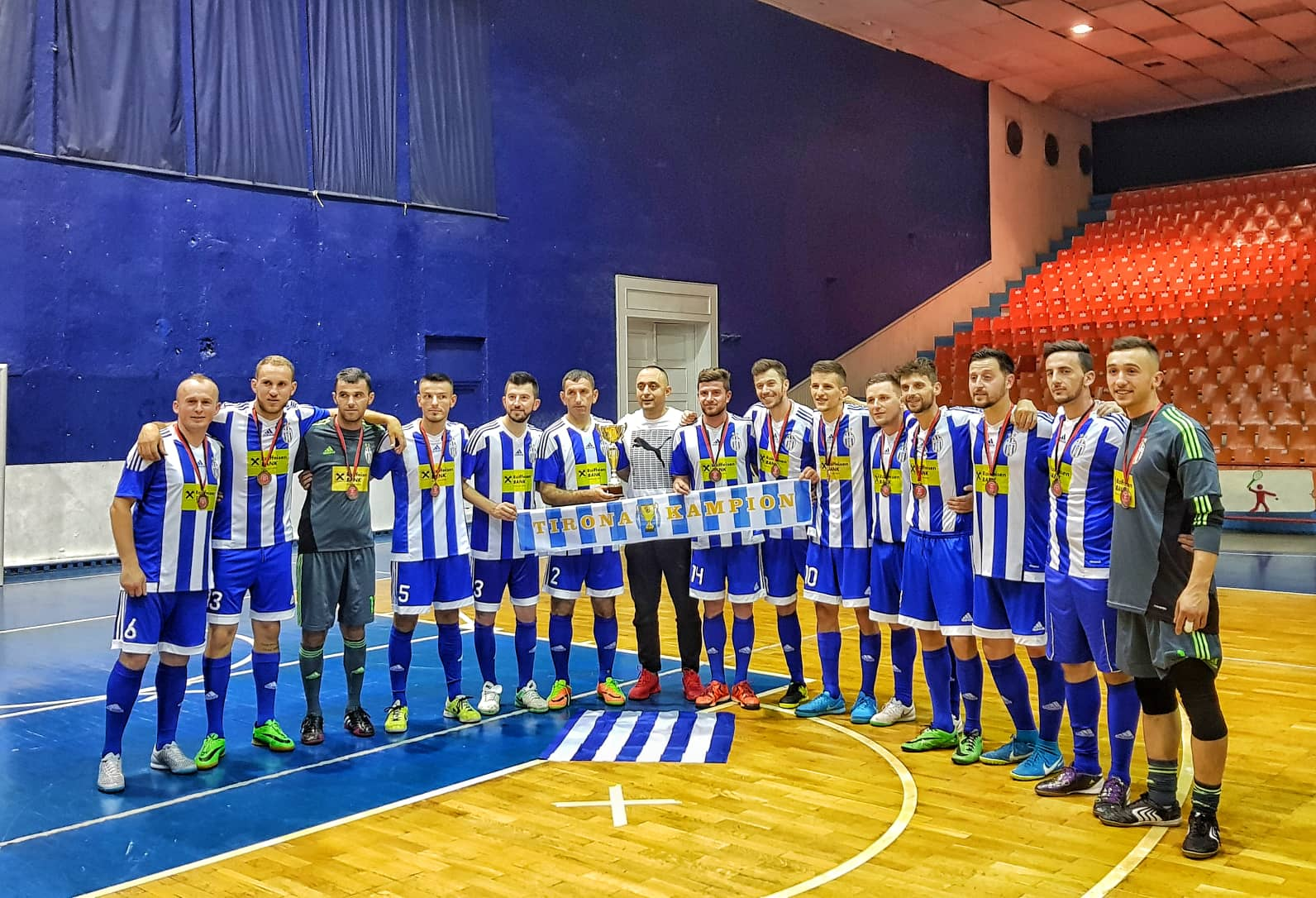 Team Photo # Kf Tirana Futsal